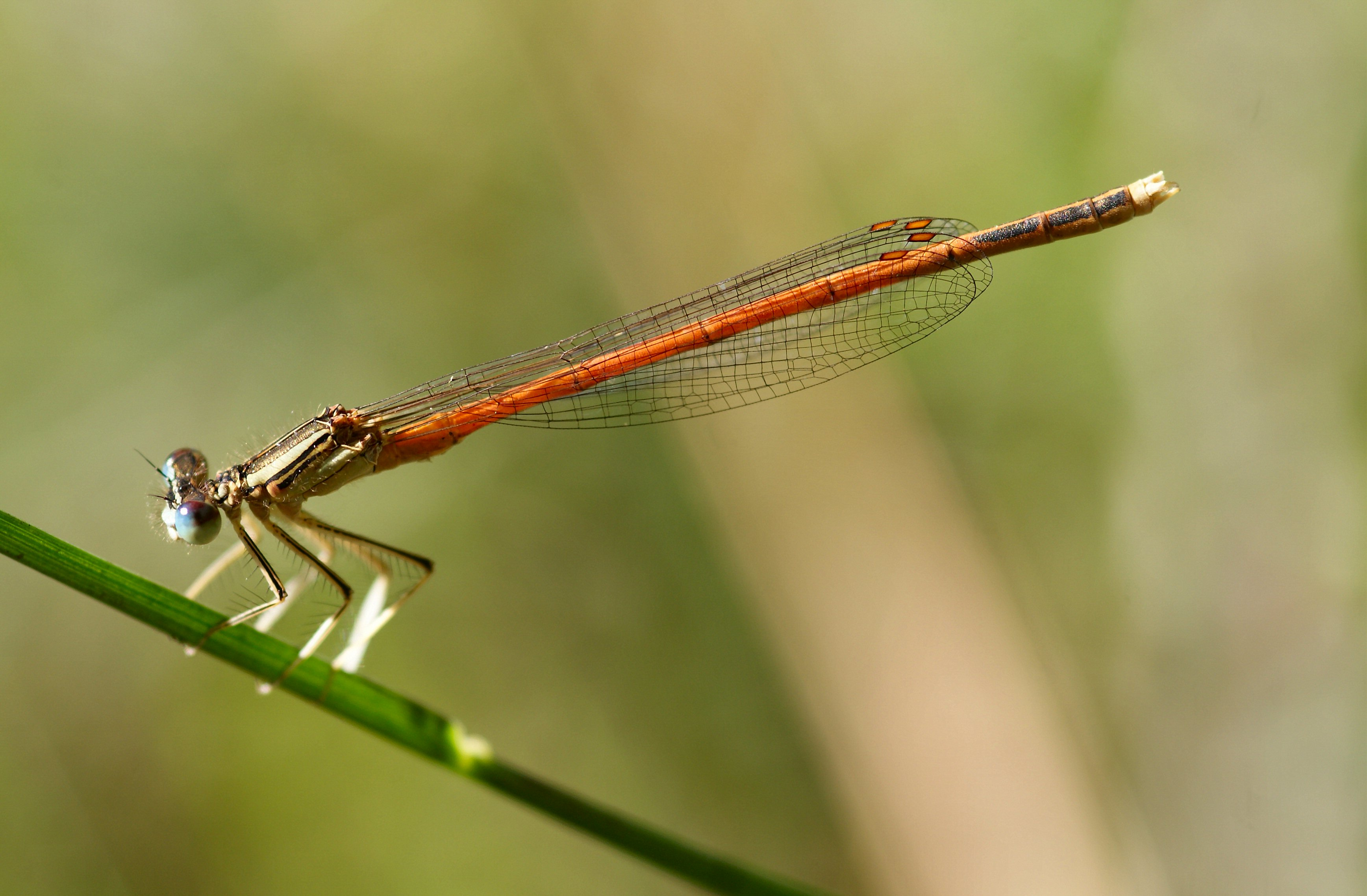 Orange Featherleg Damselfly Platycnemis acutipennis resting in tail-up sky-pointing position. Note orange spots on wings, feathered legs.